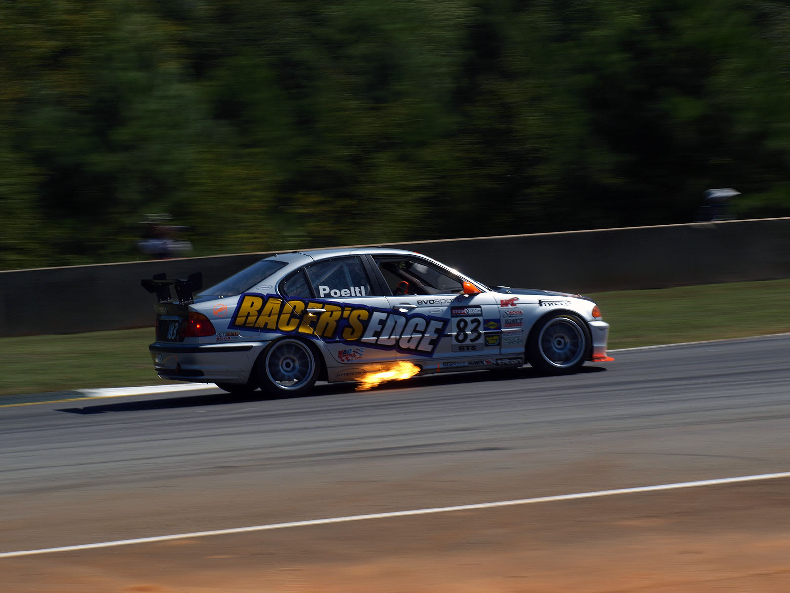 Karl Poeltl's GTS-class BMW 325i during the Pirelli World Challenge race at the 2011 Petit Le Mans weekend at Road Atlanta.